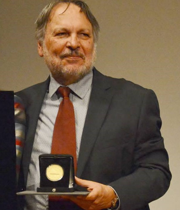 Gerardo Tamez receiving the Bellas Artes medal 2018